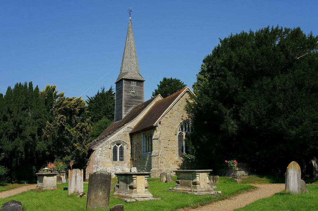 St George's parish church, Crowhurst, Surrey, seen from the southeast. To the right of the church is the Crowhurst Yew, an ancient tree thought to be up to 4000 years old. Despite the trunk being hollow, the tree seems to be in good health.